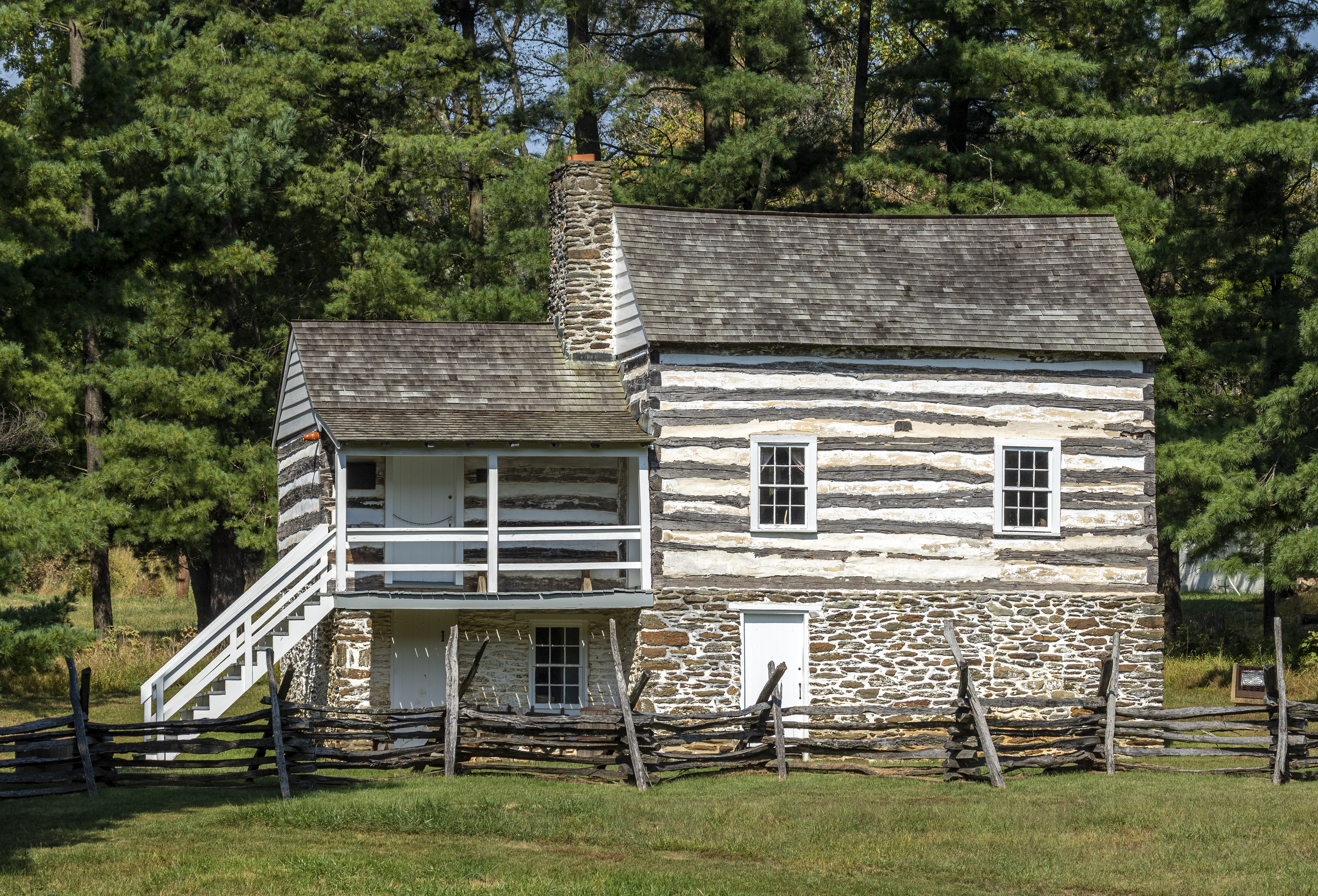 The Kennedy Farm near Sandy Hook, Maryland, USA